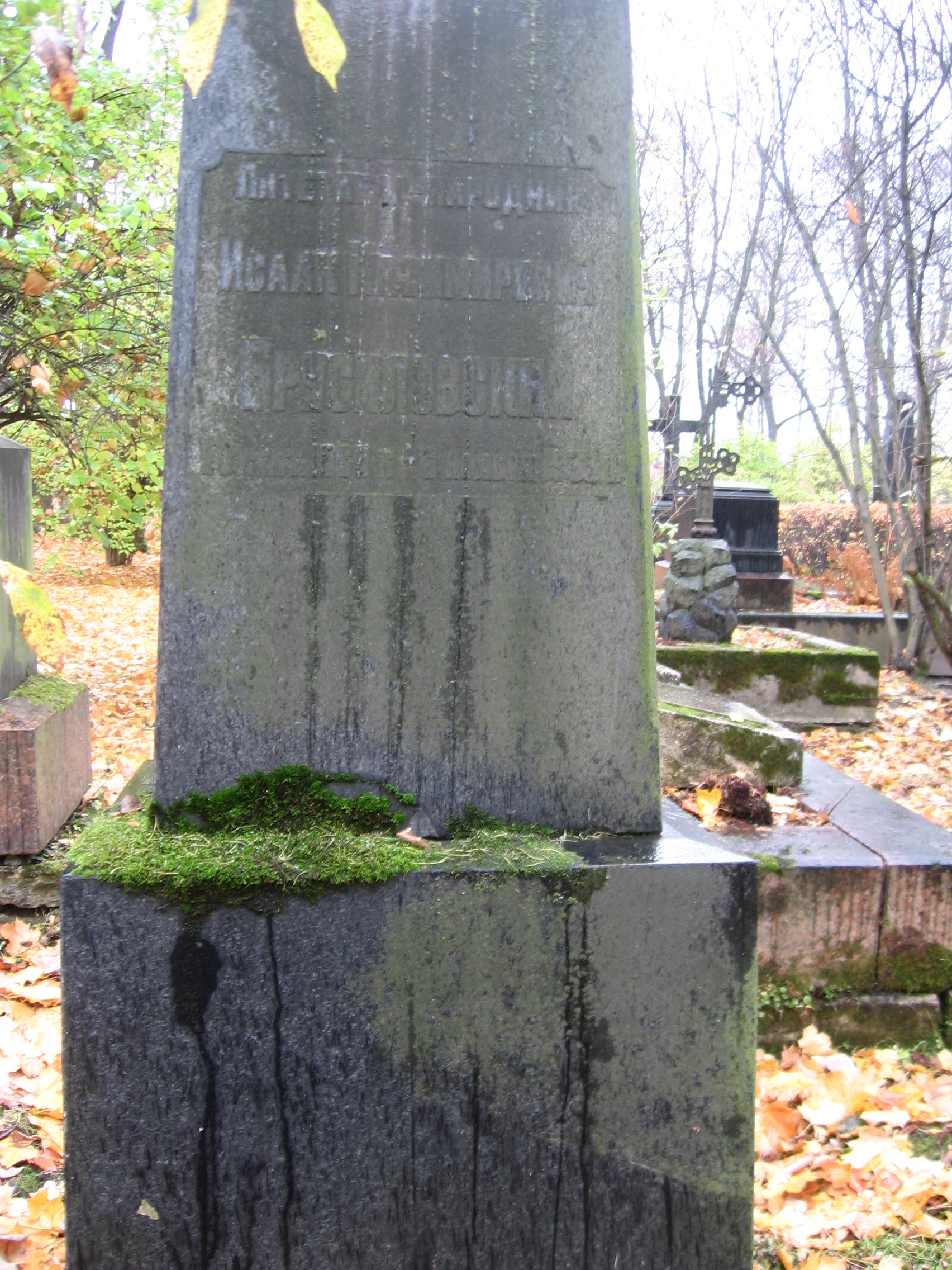 Grave of Isaak Brusilovsky